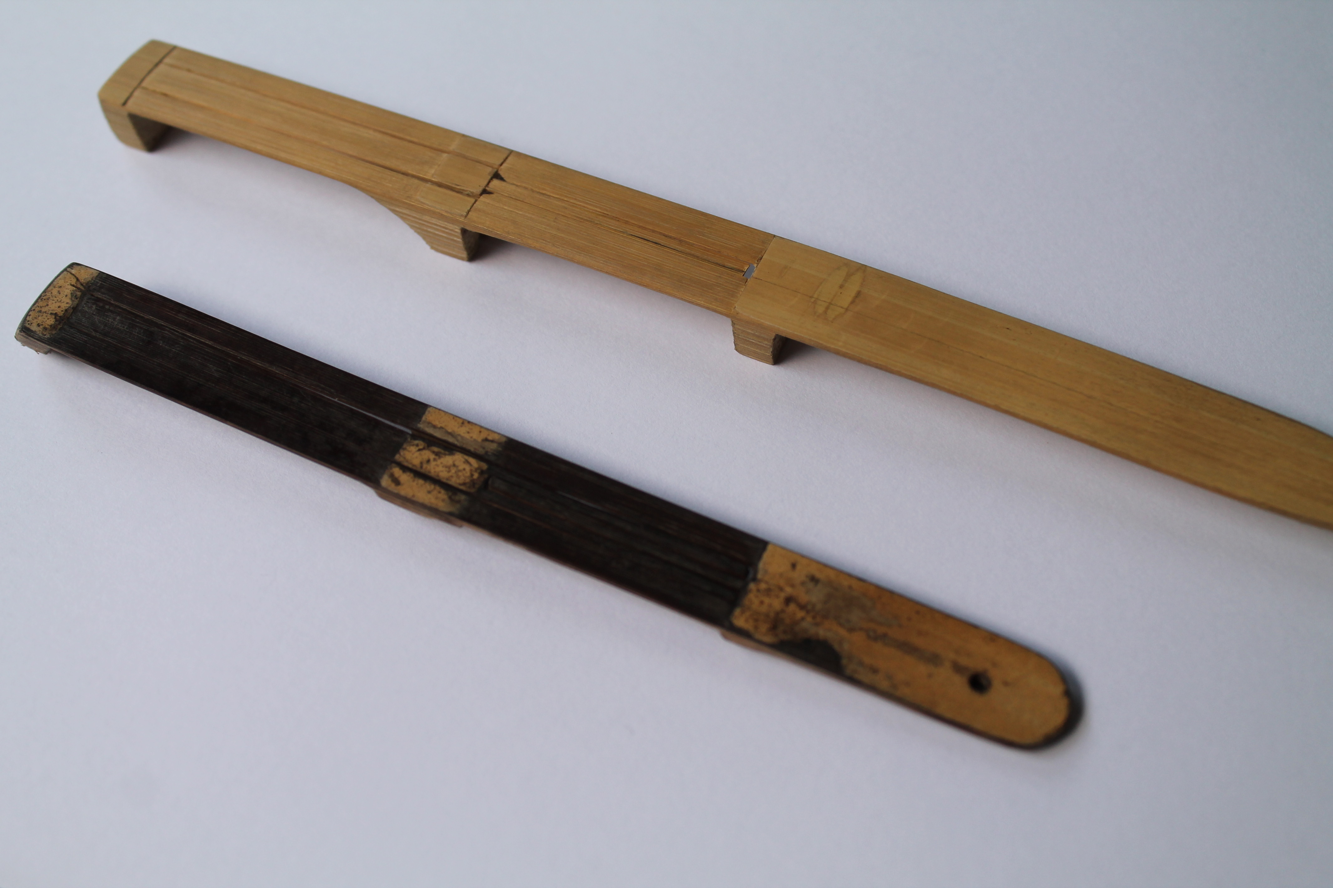 Two karindings of West Java, Indonesia. long: made of bamboo, short: made of palm midrib.